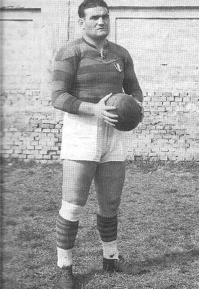 The Italian rugby union player Mario Battaglini (1919-1971)